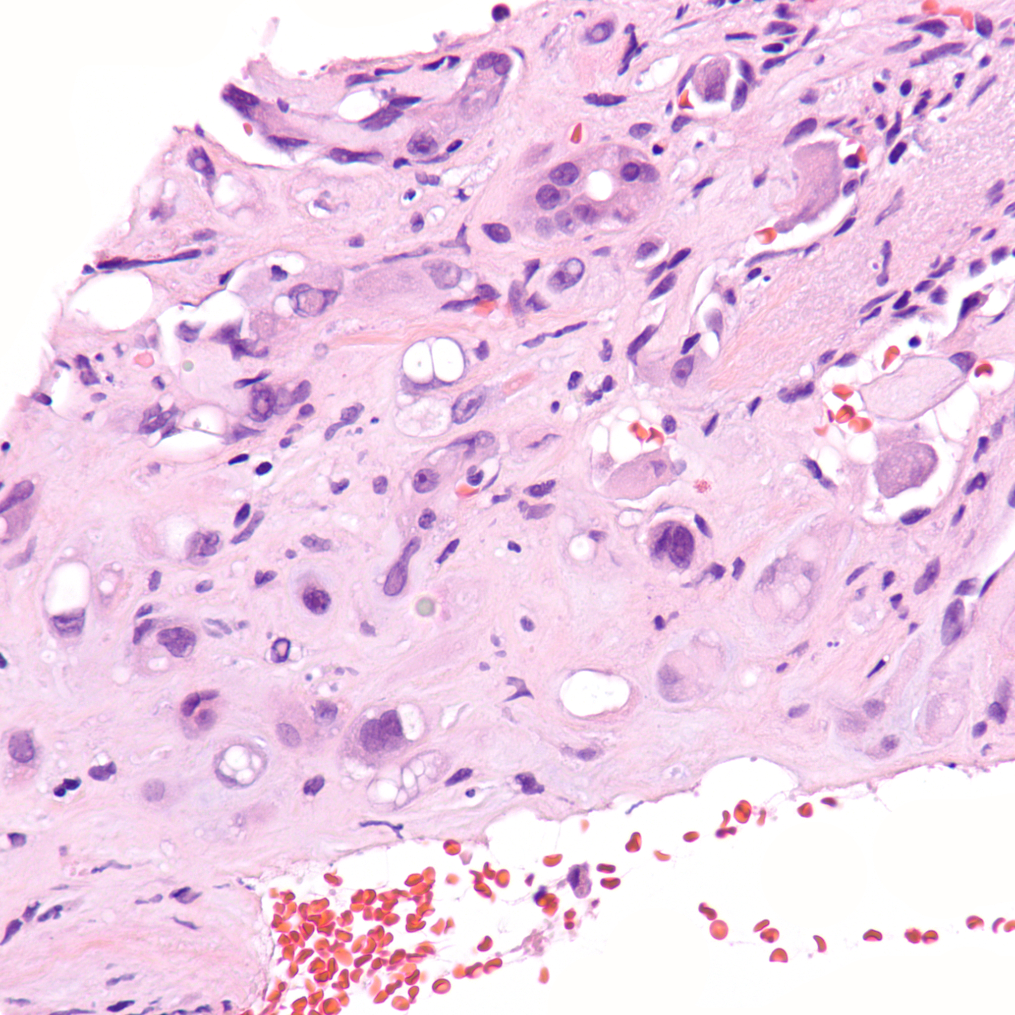 Micrograph of an Epithelioid hemangioendothelioma from a liver biopsy. Note the so-called "blister cells" with intracytoplasmic vacuoles.